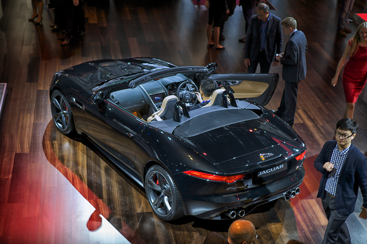 he Jaguar F-Type is unveiled at the 2012 Paris Motor Show